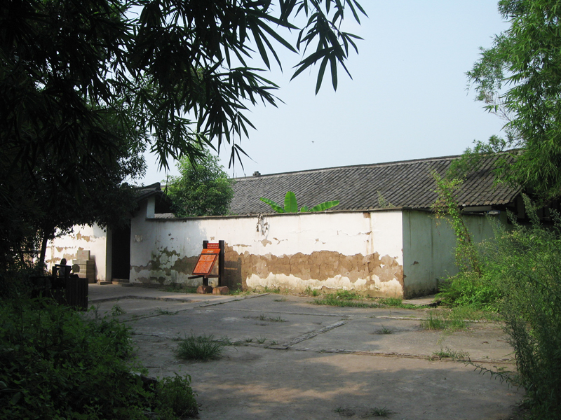 Society for the Study of Chinese Architecture in Lizhuang Township, Sichuan, China